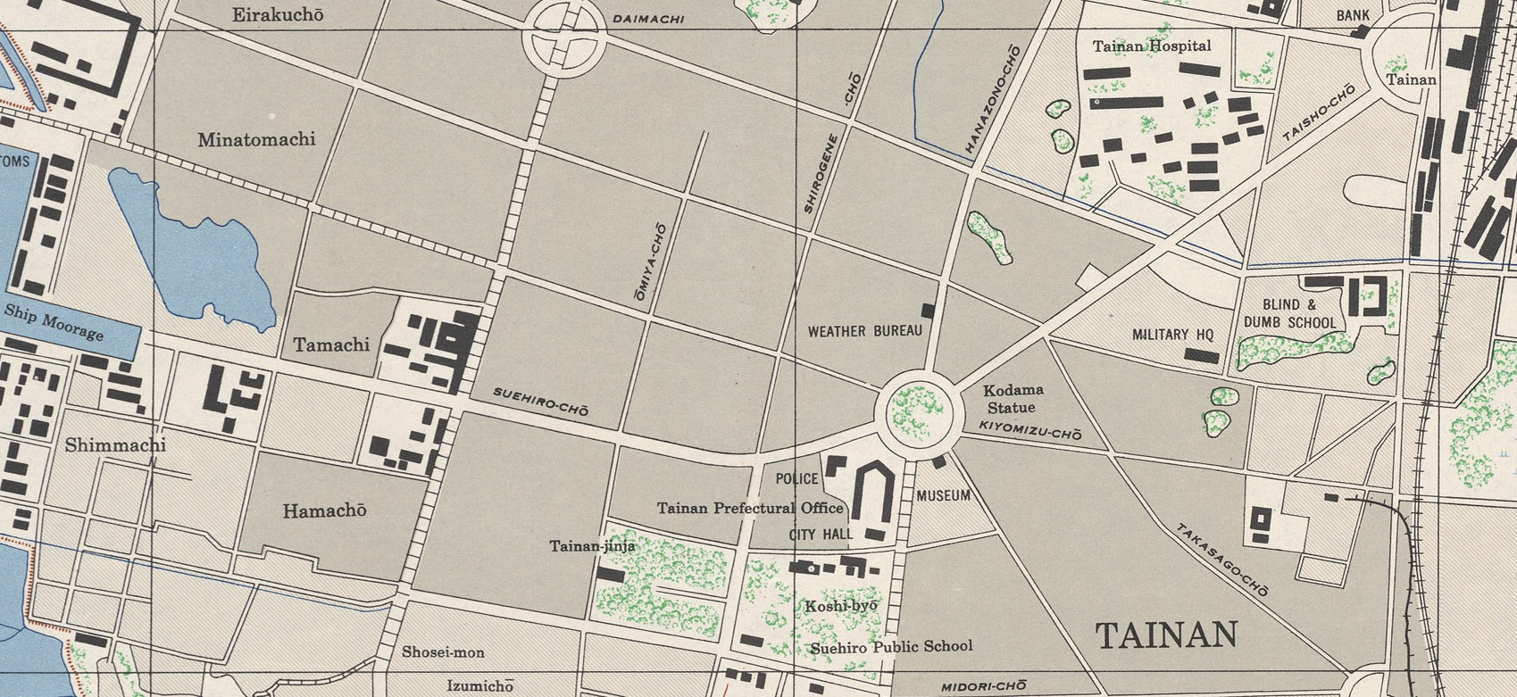 Centrl Tainan, Formosa (Taiwan) City Plans